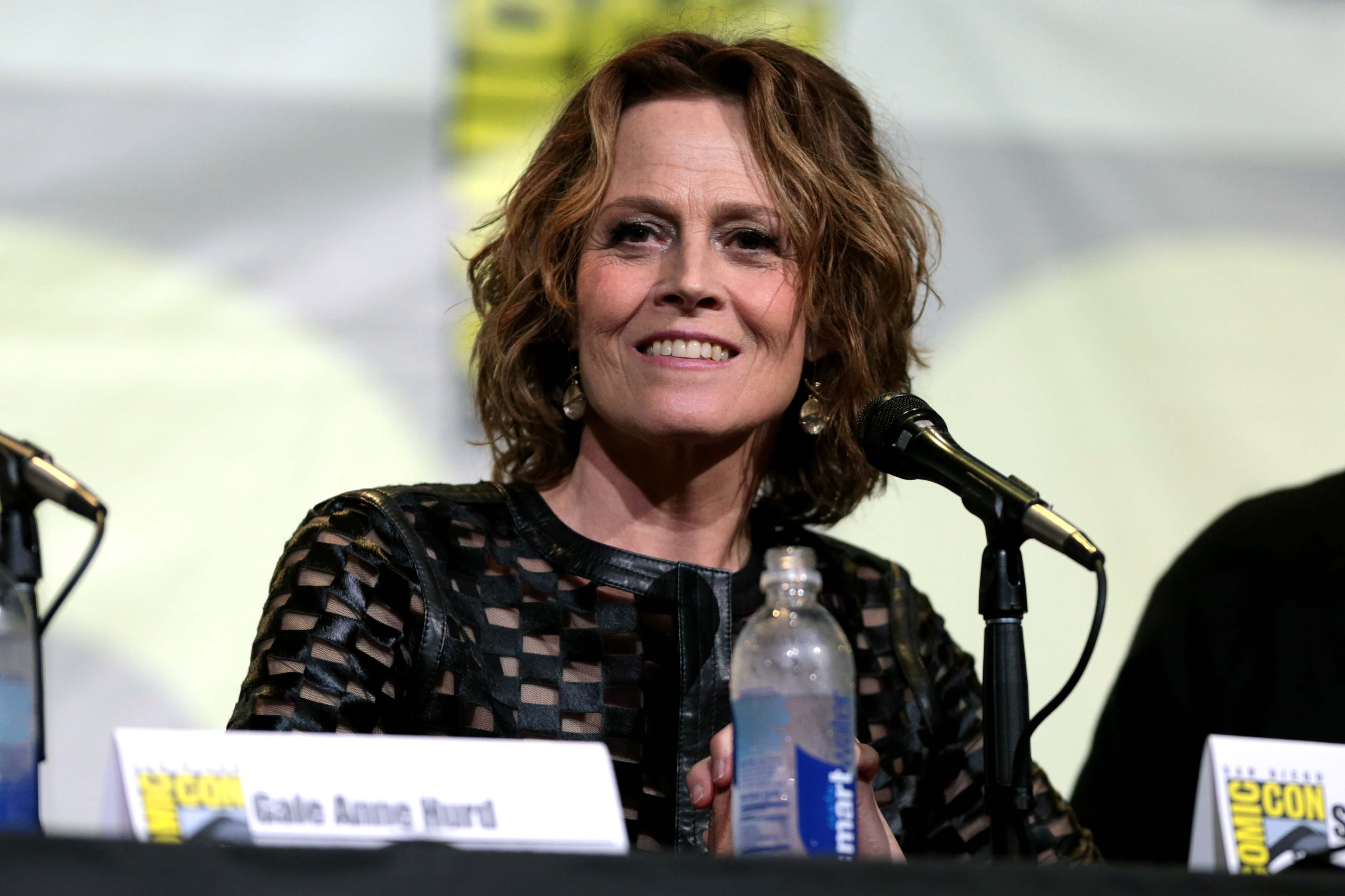 Sigourney Weaver speaking at the 2016 San Diego Comic Con International, for "Aliens: 30th Anniversary", at the San Diego Convention Center in San Diego, California.